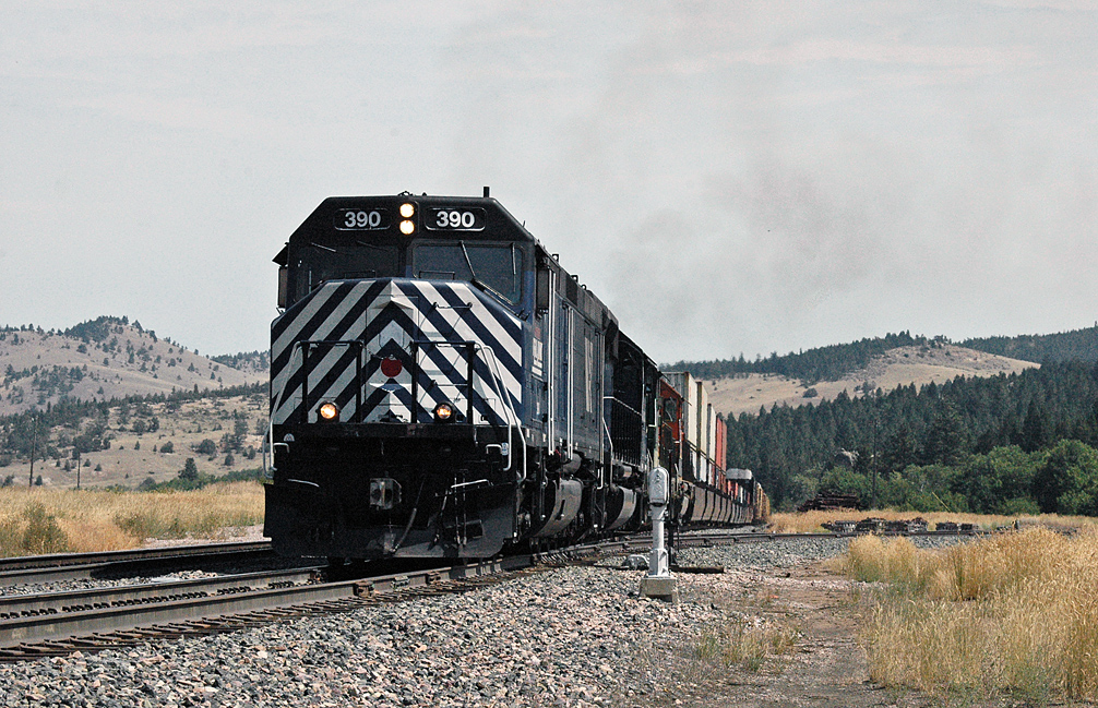 Austin MT 8 23 05xRPRP. Waiting at Austin for the Eastward Montana to Laurel freight August 22nd 2005.